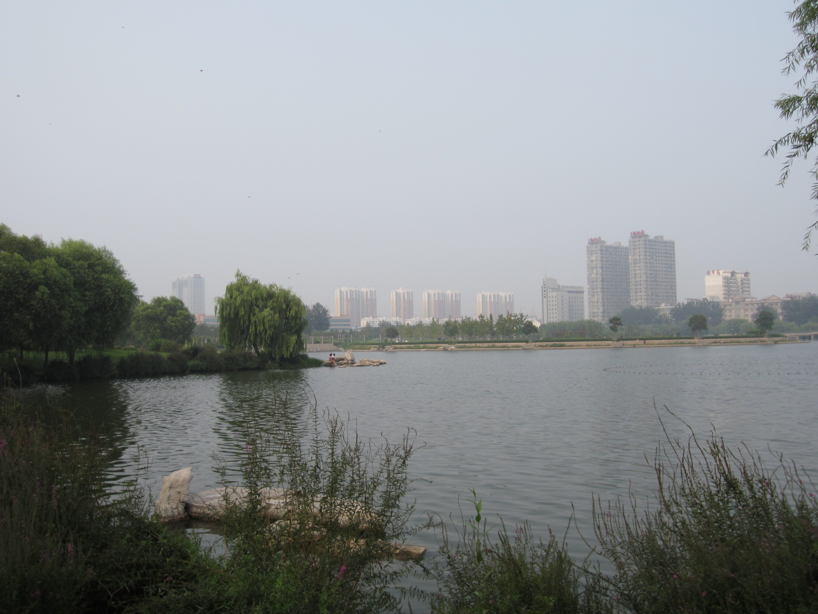 Longhu Park View.